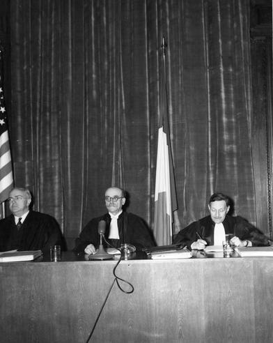 The French judges at the Nuremberg War Crimes Trials. From left to right: John J. Parker (United States judge), Henri Donnedieu de Vabres, and Robert Falco.